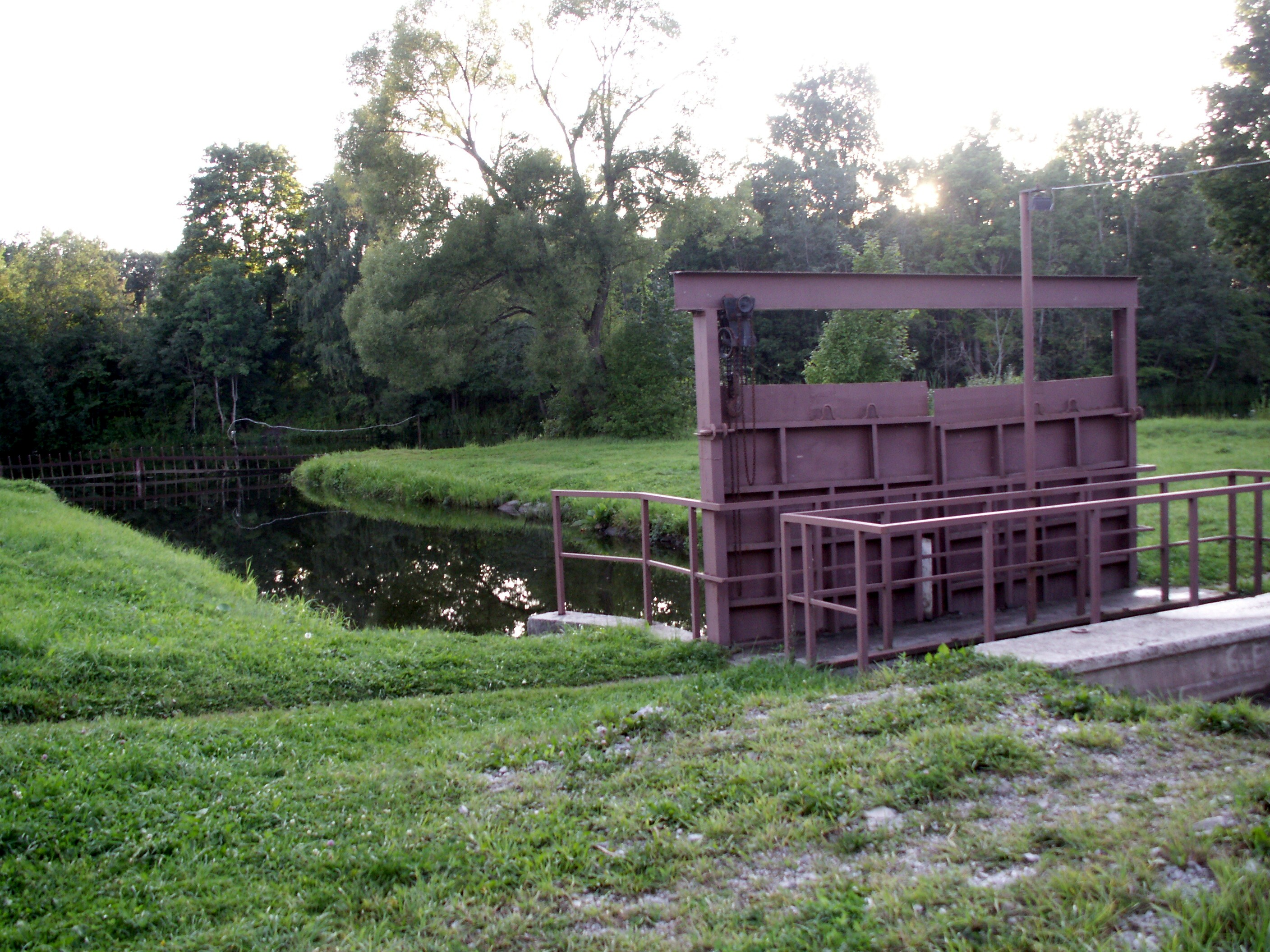 Kairiškiai water power station, Akmenė district, Lithuania